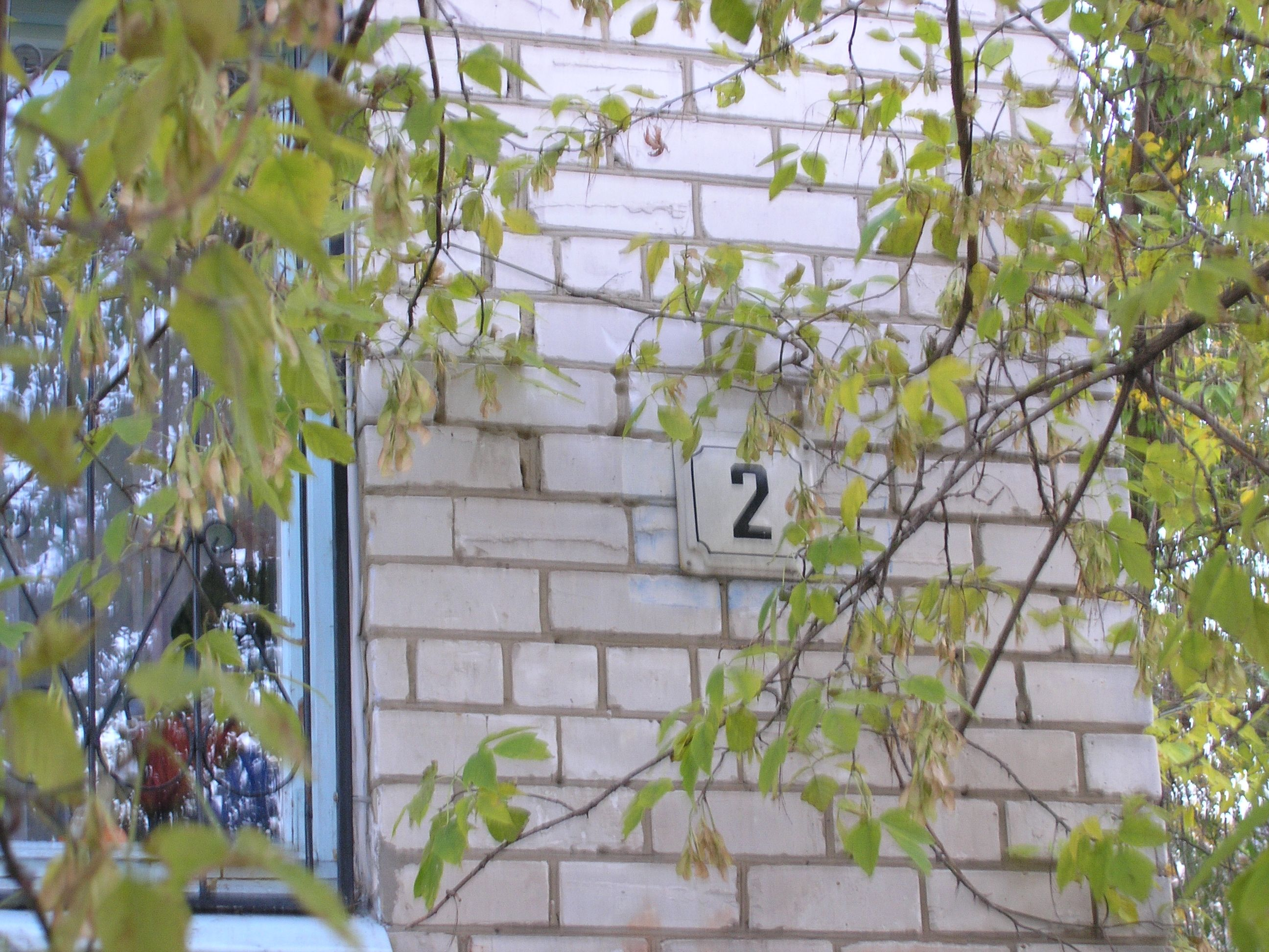 Pushkin street, Togliatti, Russia